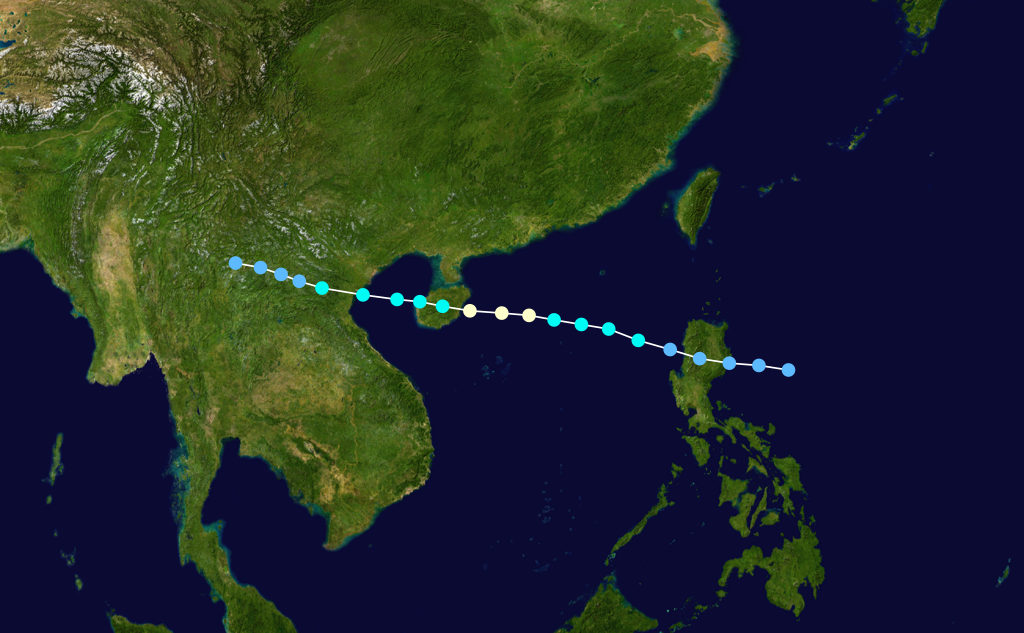 Typhoon Marge 1973 track. Uses the color scheme from the Saffir-Simpson Hurricane Scale.